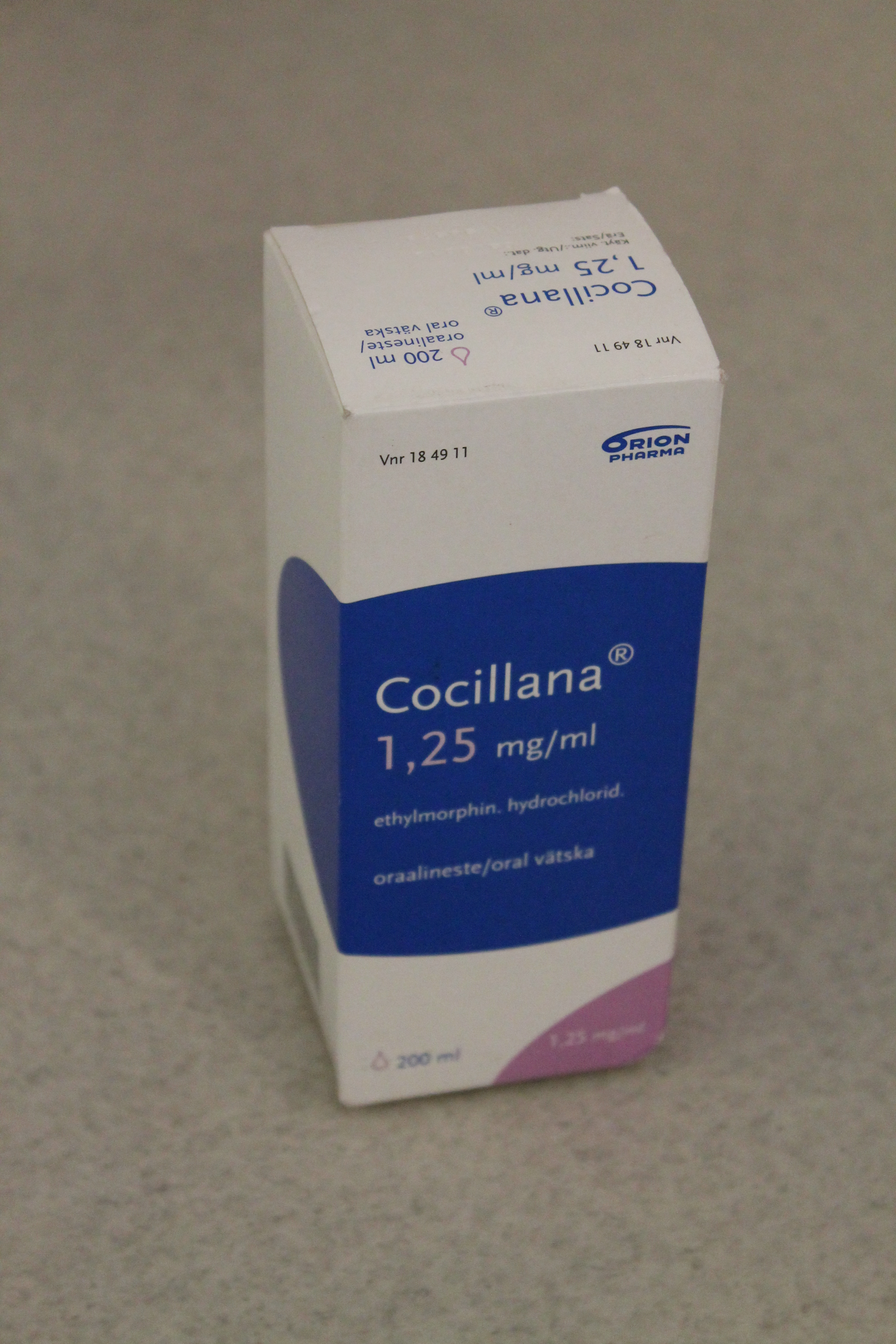 Ethylmorphin based cough syrup.